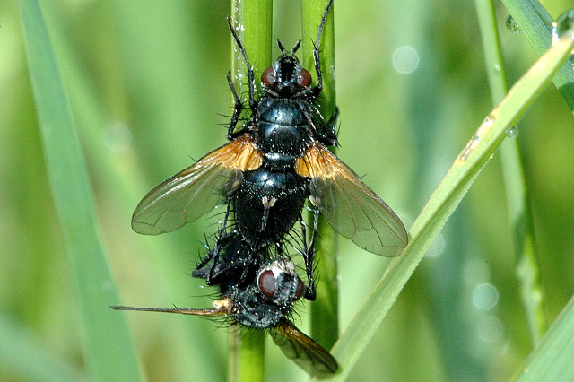 Picture taken in Commanster, Belgian High Ardennes . Species: Zophomyia temula couple